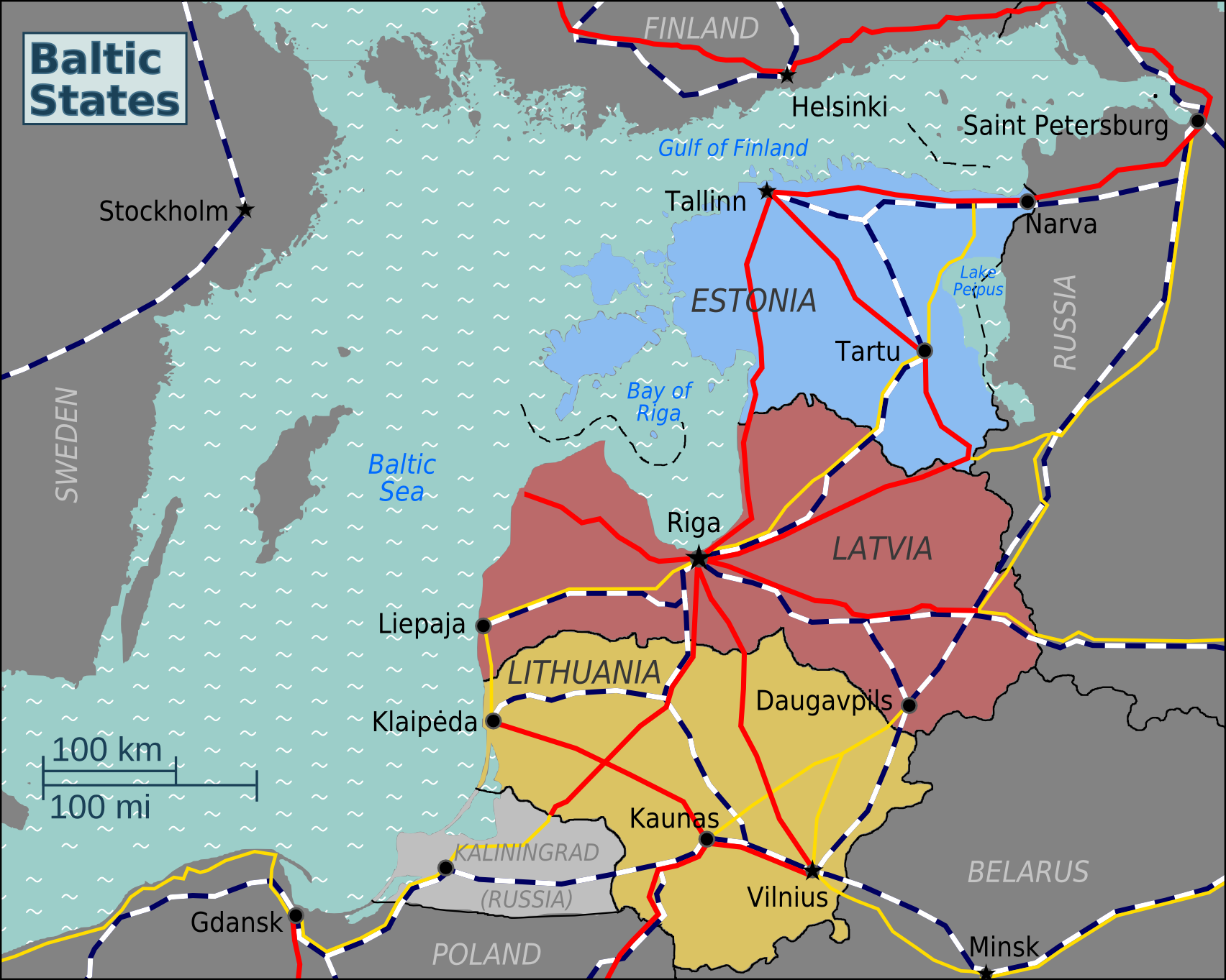 Baltic states regions map for use on Wikivoyage, English version